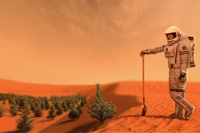 Colonization of Mars